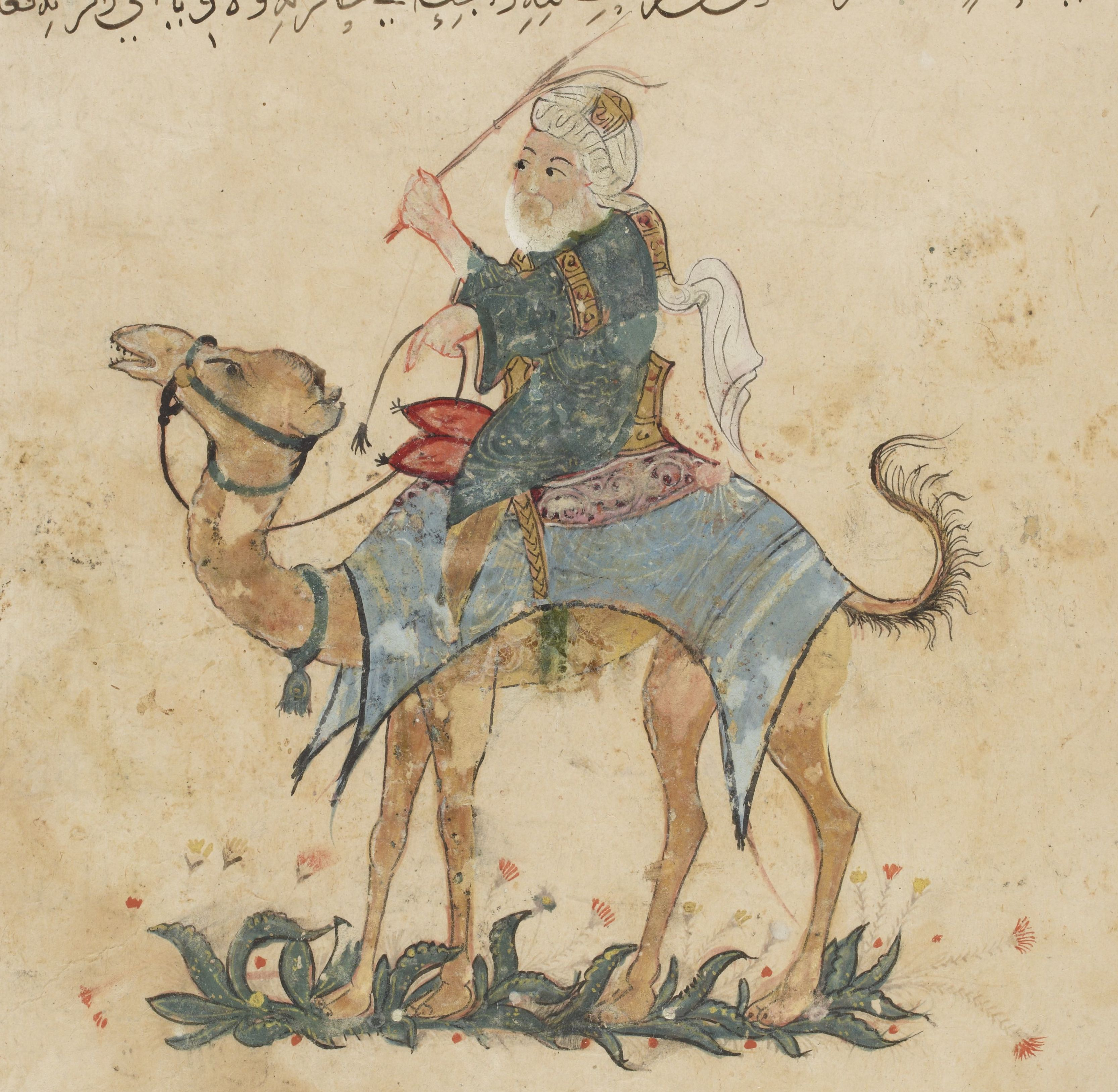 The image comes from an illuminated manuscript of the Maqamat by Al-Hariri (1054-1122), painted in Iraq in the style of the Baghdad School by Yahya ibn Mahmud al-Wasiti. The manuscript was completed in 1237. Note that this is not a picture of Ibn Battuta (1304 – 1368/1369) who was born more than 70 years after the picture was painted.